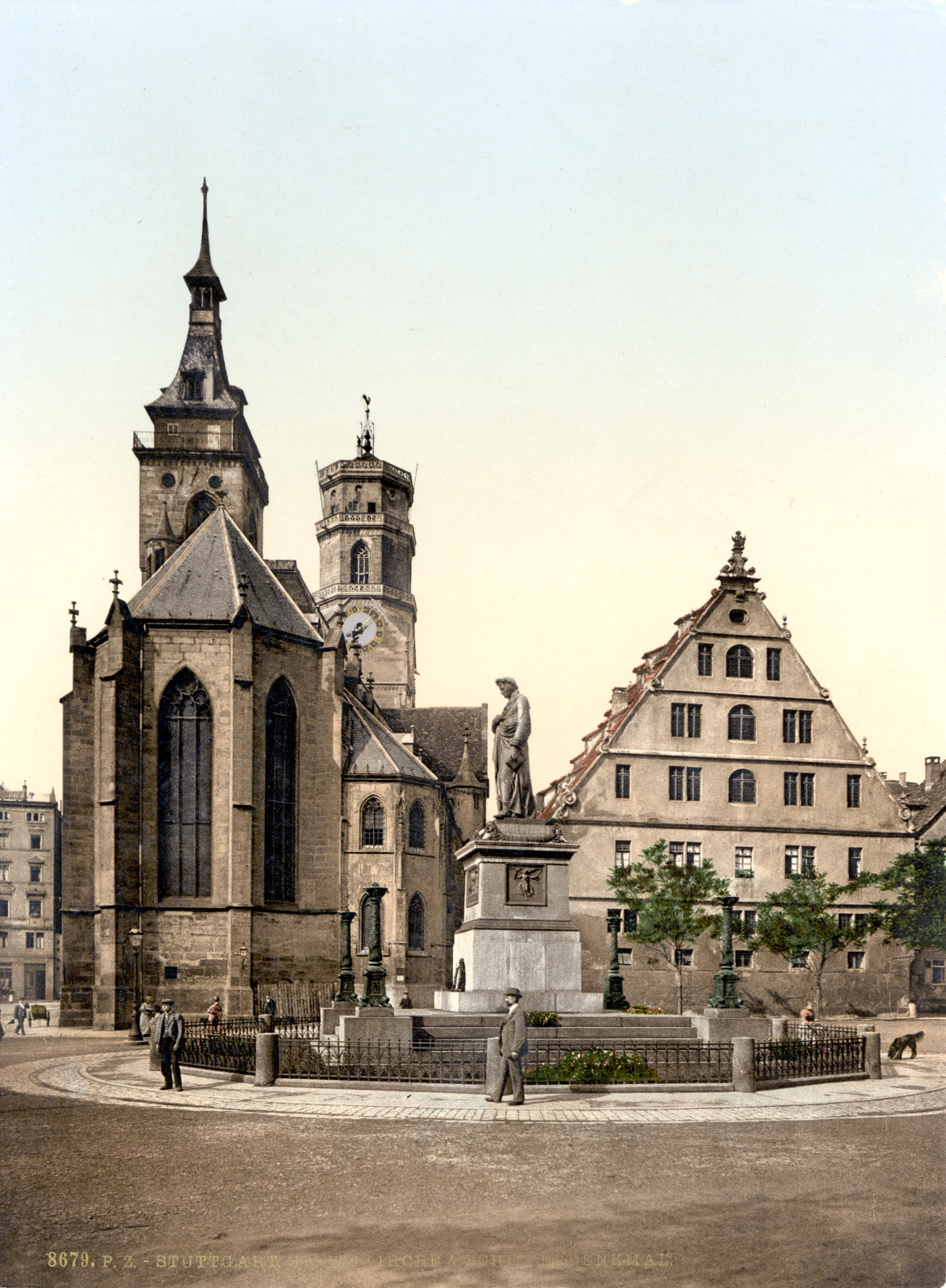 Stuttgart - Stiftskirche and Schiller memorial